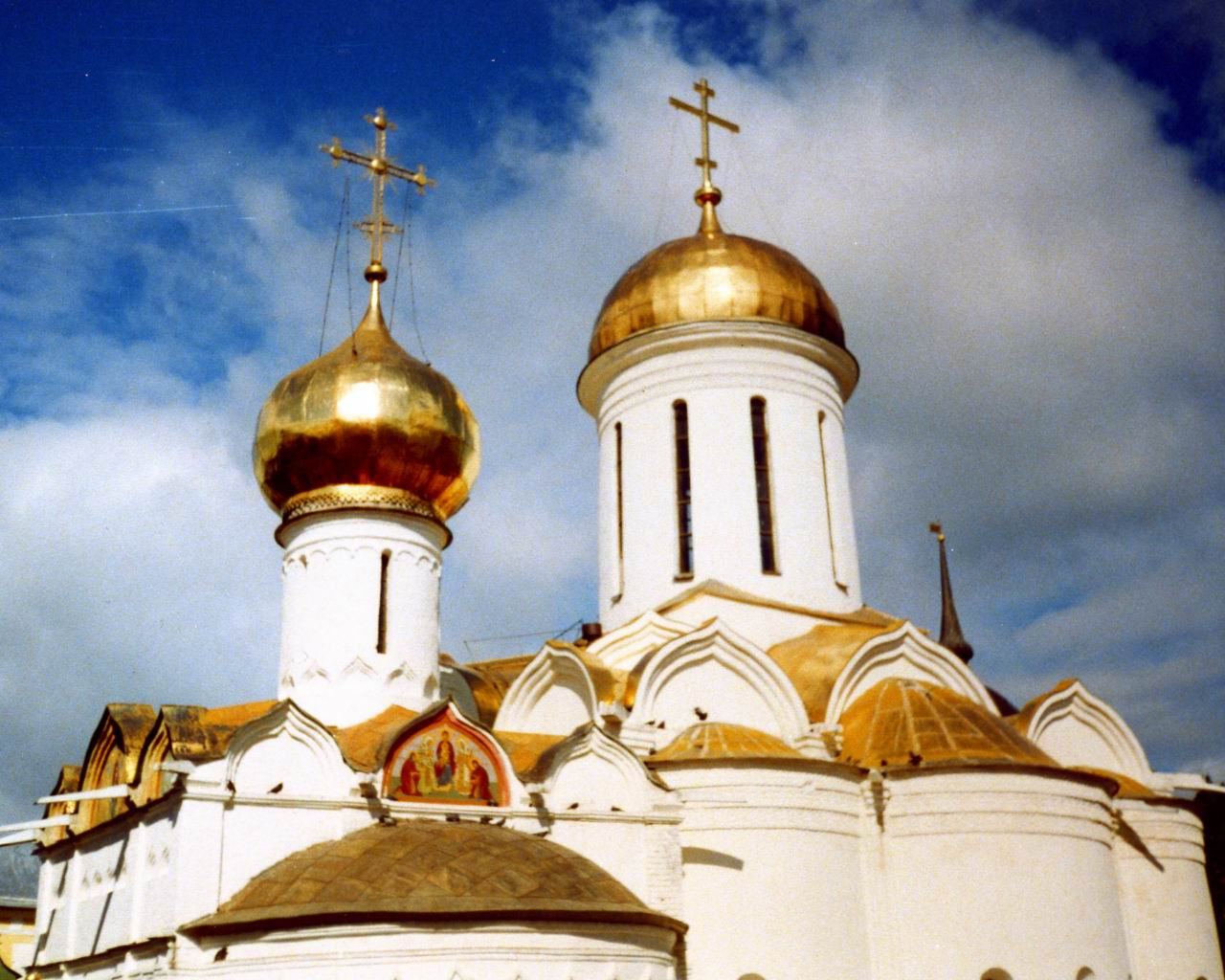 The Trinity Cathedral in the Holy Trinity-St. Sergius Lavra in Sergiev Posad. (June 2000)